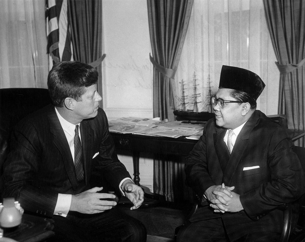 President John F. Kennedy meets with Indonesian Ambassador to the United States Zairin Zain in the Oval Office, White House, Washington, D.C.